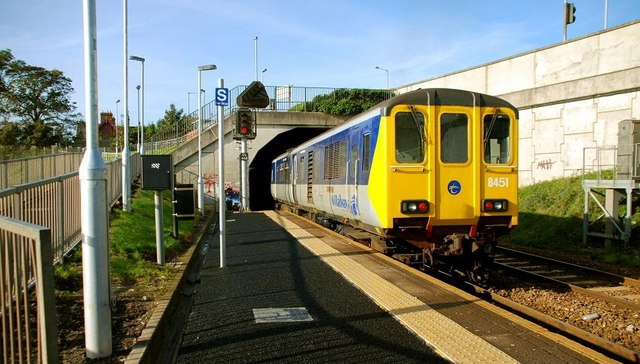 Downshire railway station Original description: Departure from Downshire station See J4288 : Railway at Downshire. The 10.27 from Larne Harbour departing Downshire for Belfast (Gt Victoria Street).